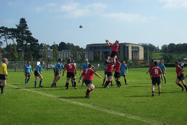 Madras RFC Playing Fields St Andrews. Game of rugby with buildings of St Andrews university in the background